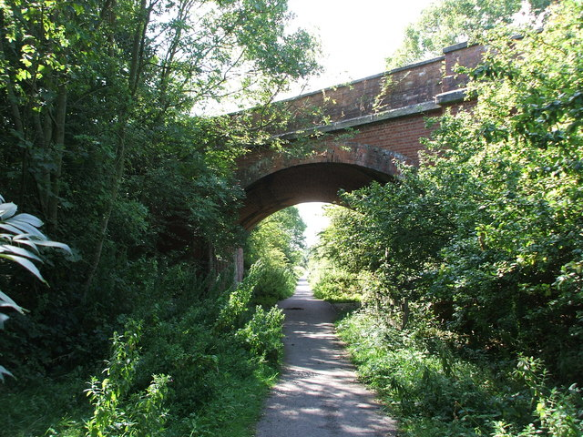 Bridge over Trans Pennine Trail, Hornsea, East Riding of Yorkshire, England.